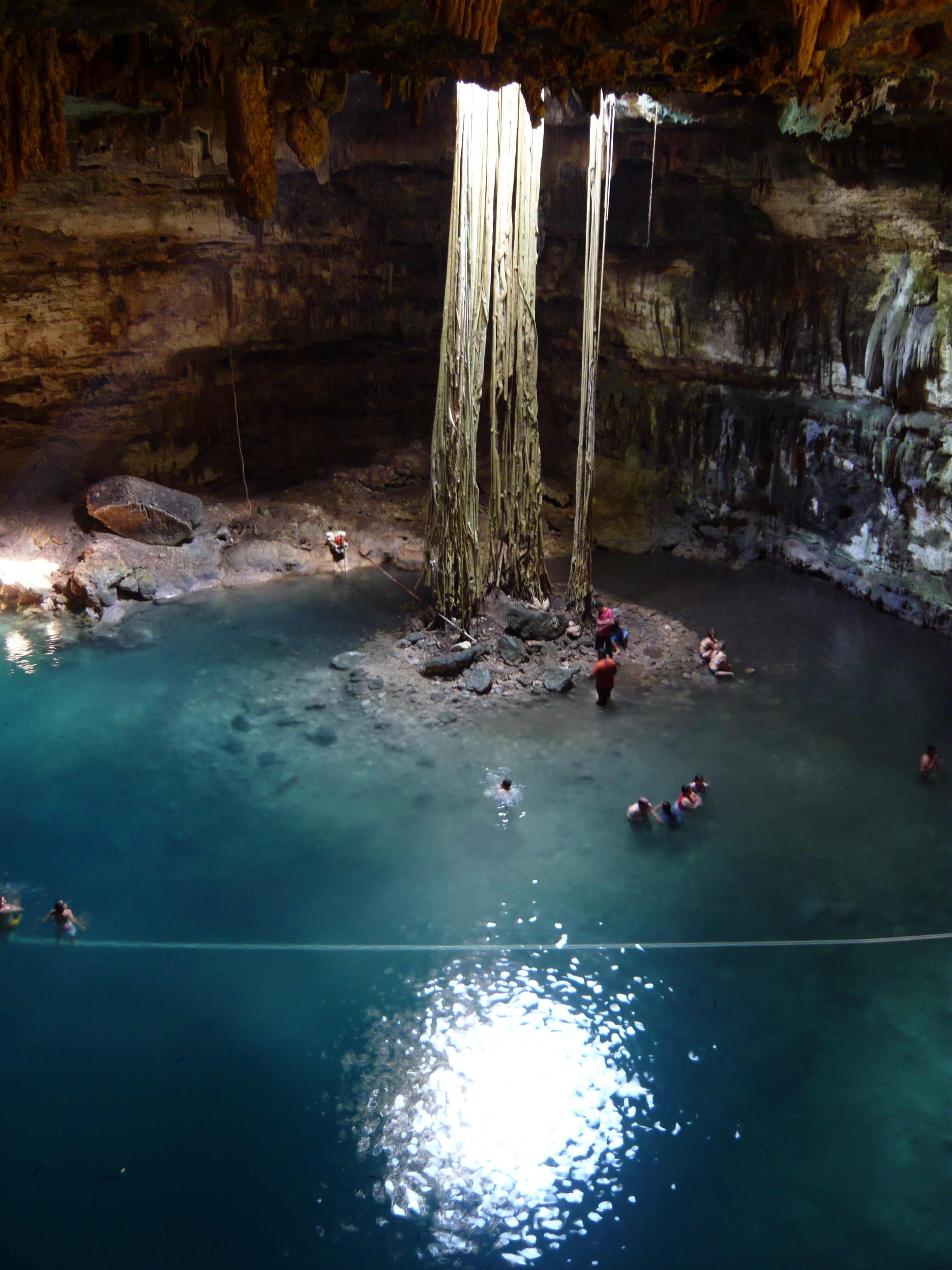 Samulá Cenote at Dzitnup near Valladolid, Yucatán, Mexico